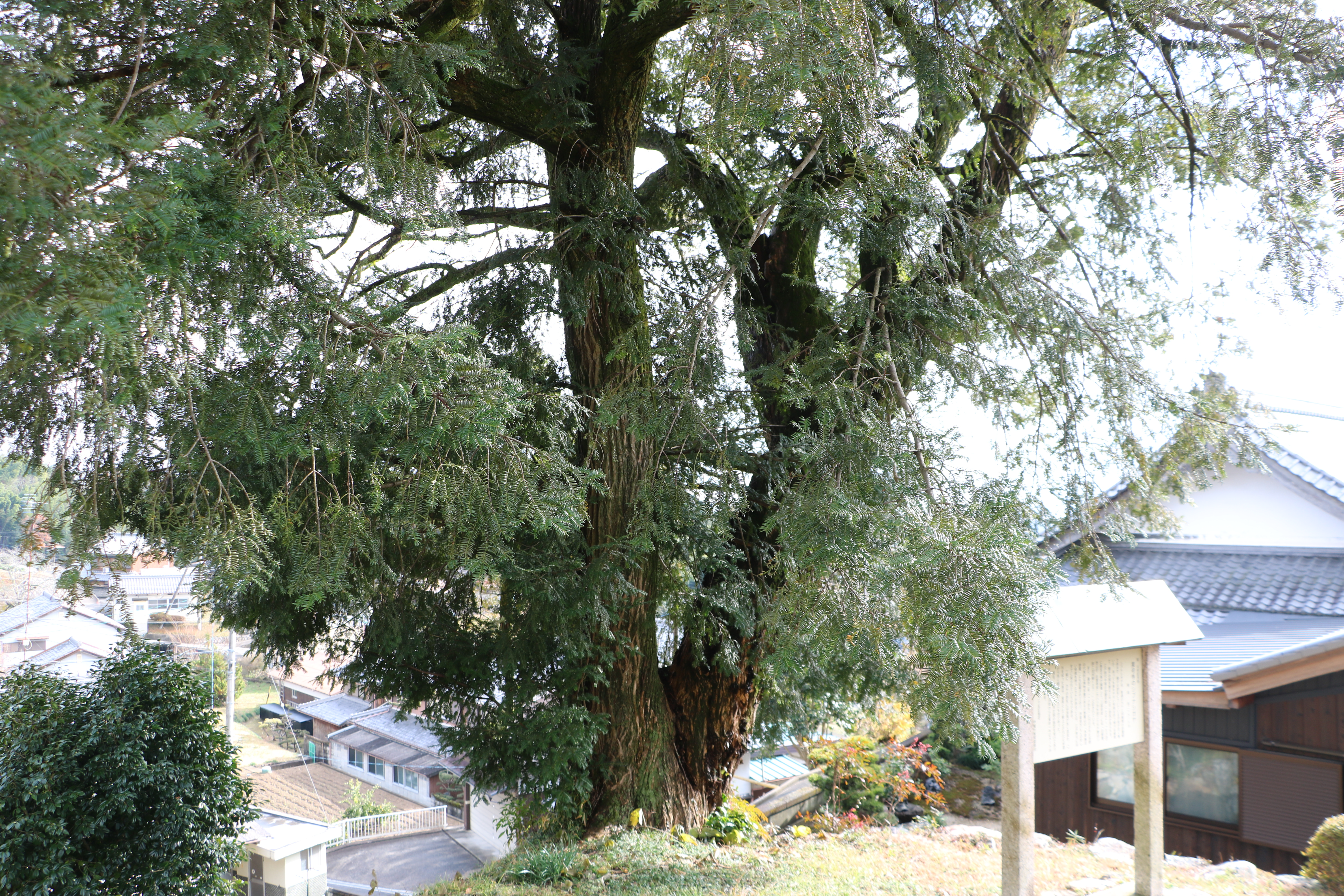 Kagoji no Shibunashigaya